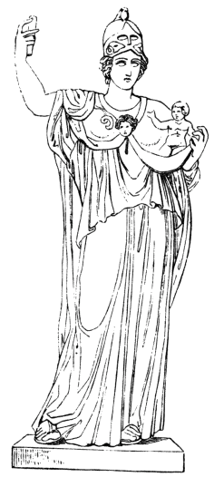 Greek Goddess Athena